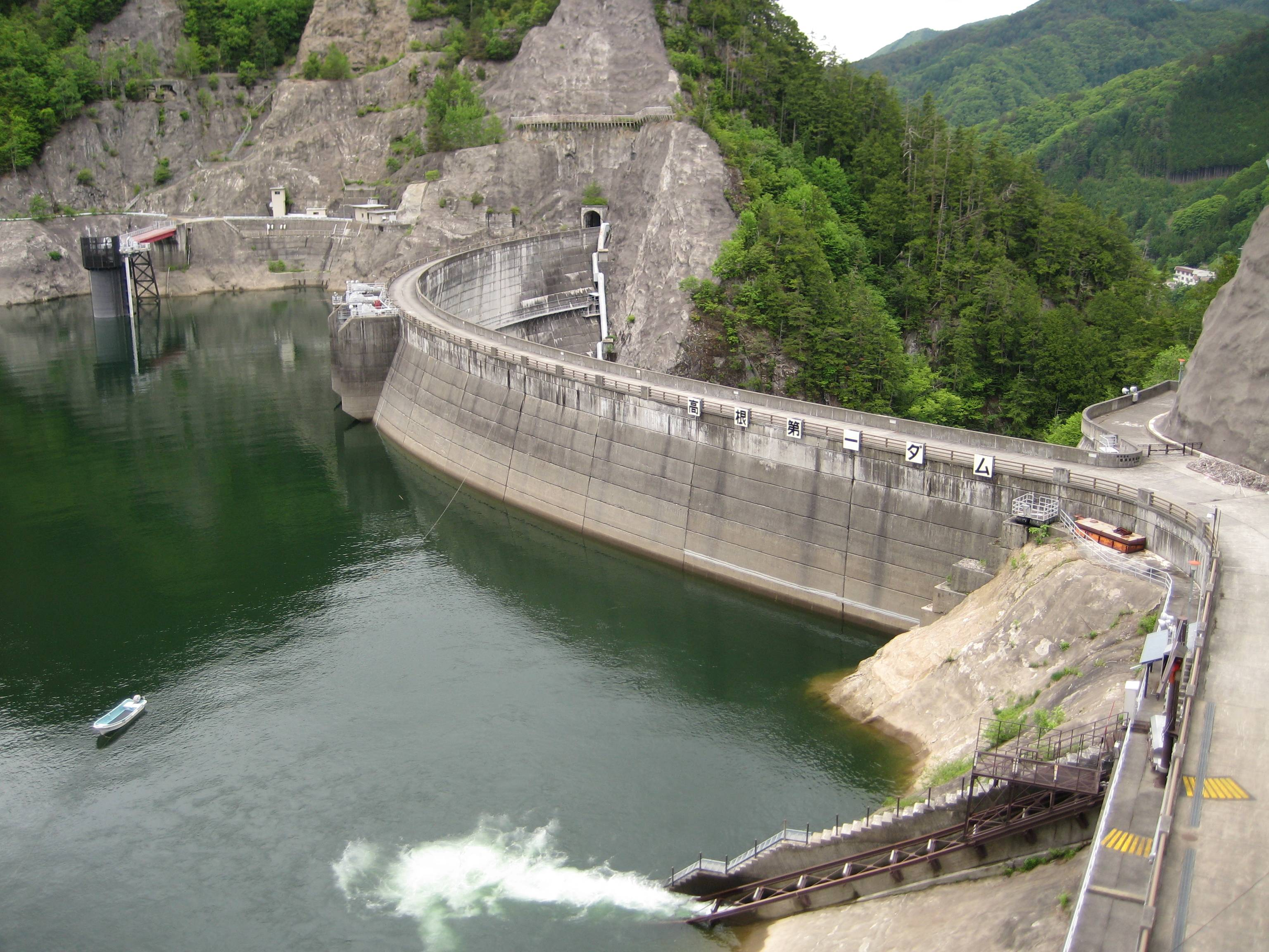 Takane Dam lake.